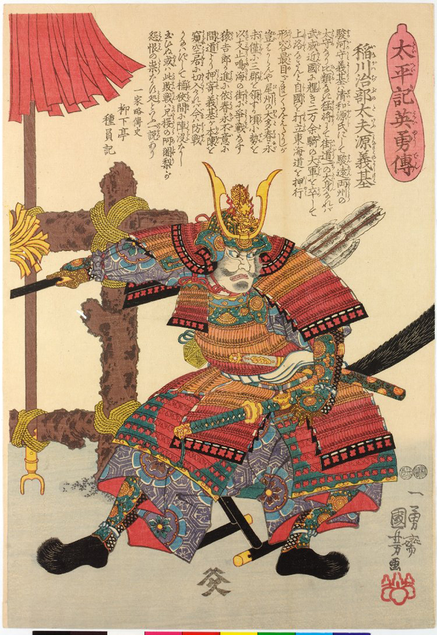 Ukiyo-e of Imagawa Yoshimoto (1519 – June 12, 1560). Yoshimoto was a pre-eminent daimyō (feudal lord) in the Sengoku period Japan. Based in Suruga Province, he was one of the three daimyōs that dominated the Tōkaidō region.